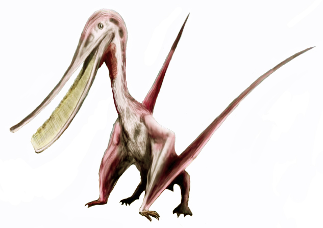 Pterodaustro, pencil drawing, digital coloring.